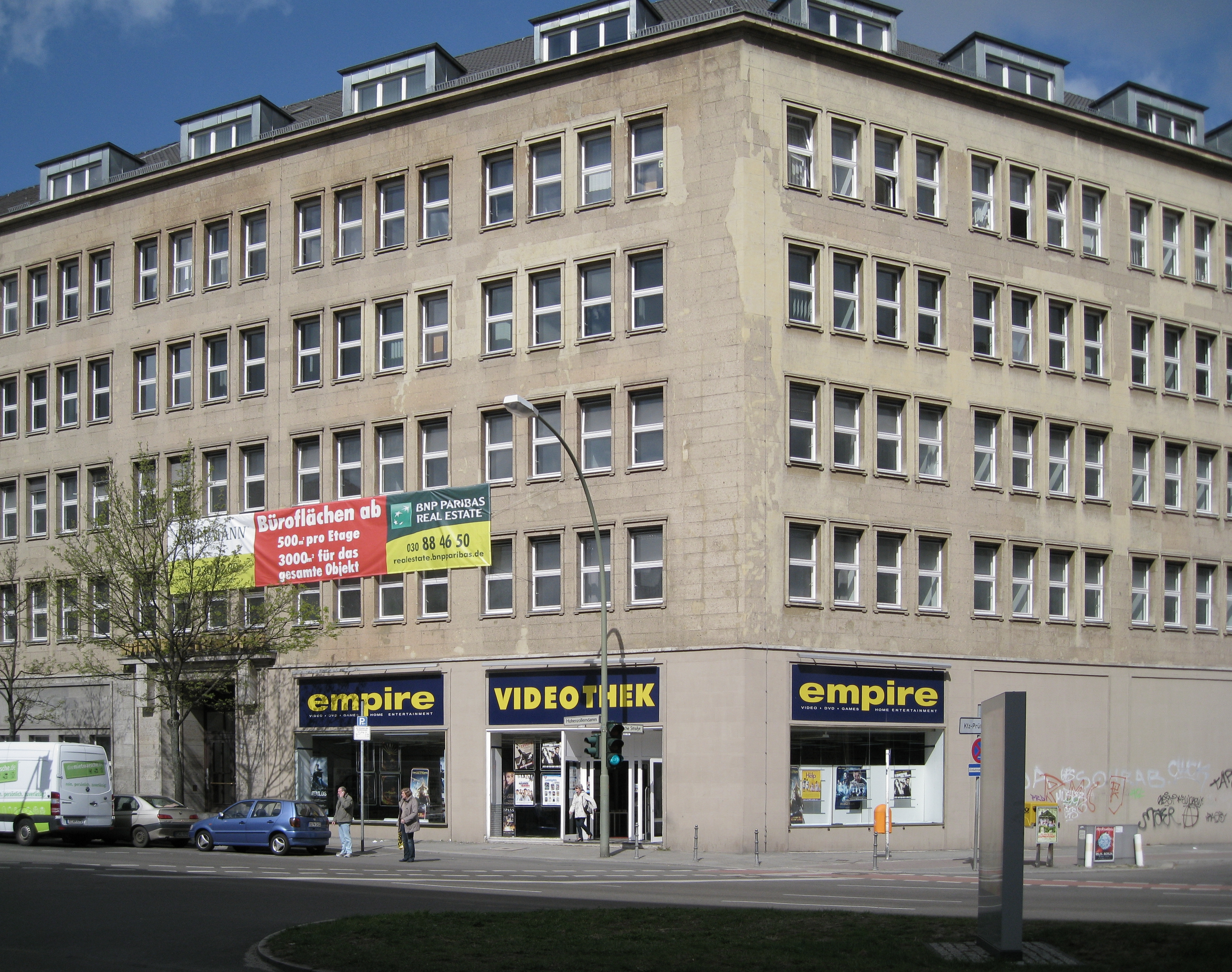 Verwaltungsgebäude